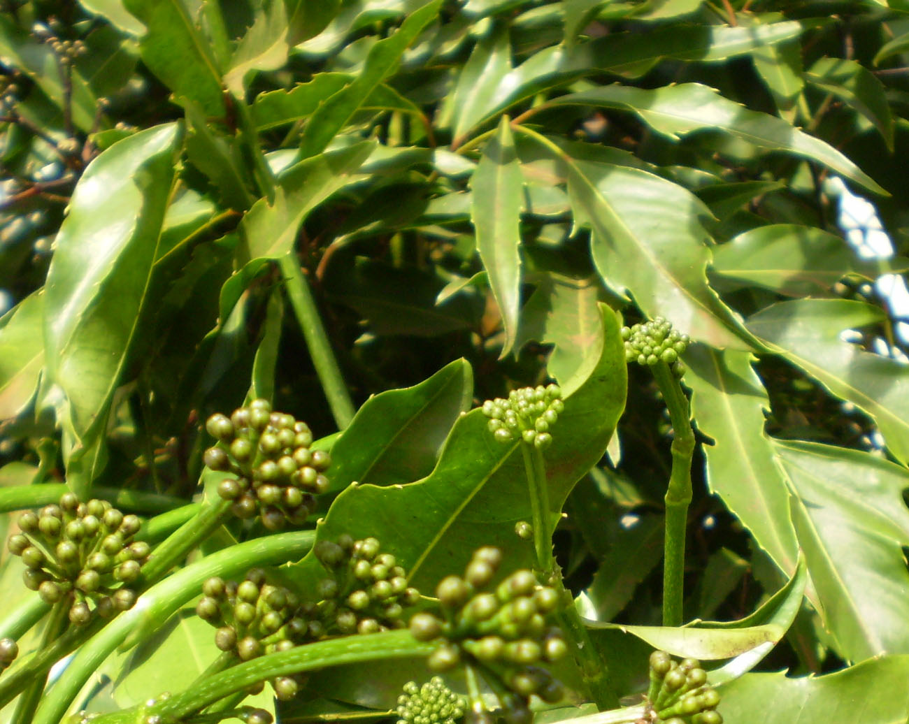 Fruticosus flower buds